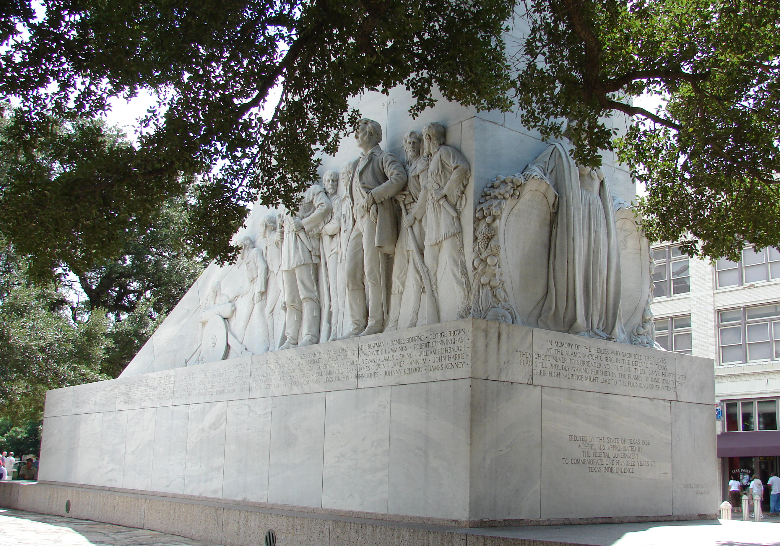 Memorial (cenotaph) at the Alamo Mission in San Antonio, Texas. Designed by Pompeo Coppini and installed between 1936 and 1940.